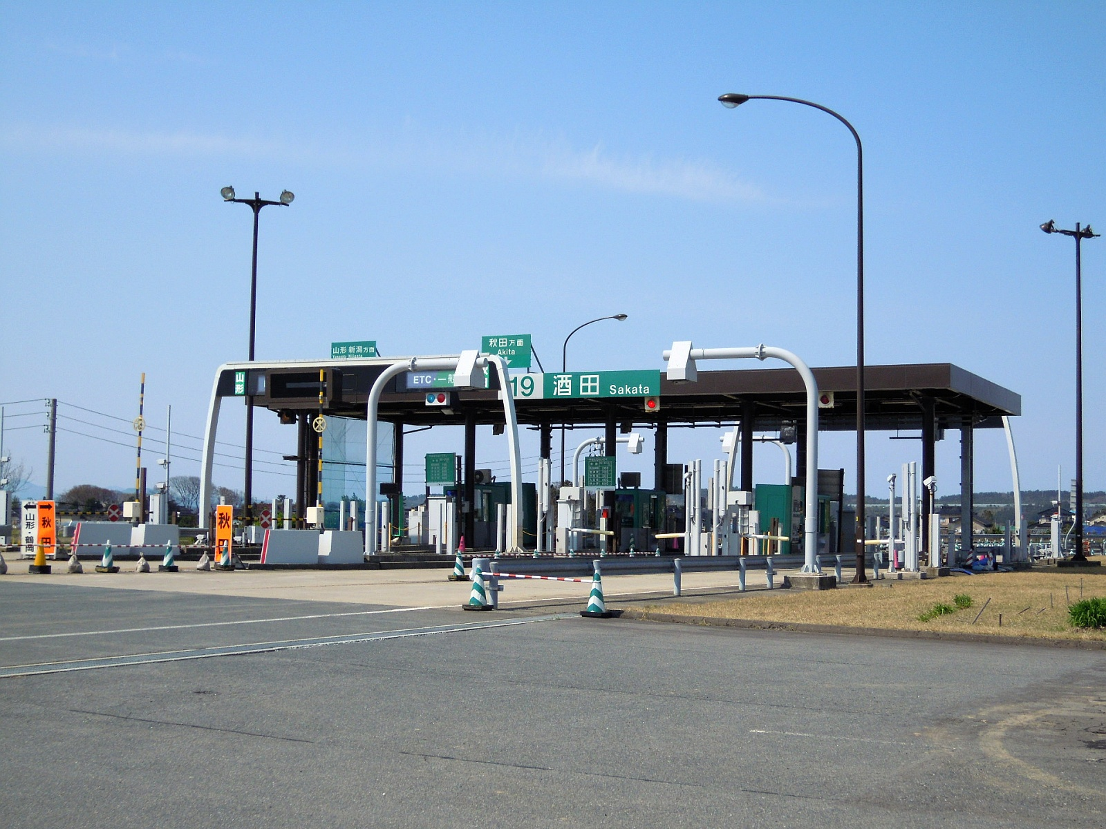 This Interchange, Sakata Interchange, is on Nihonkai-Tohoku Expressway, in Sakata City Yamagata Prefecture, Japan.